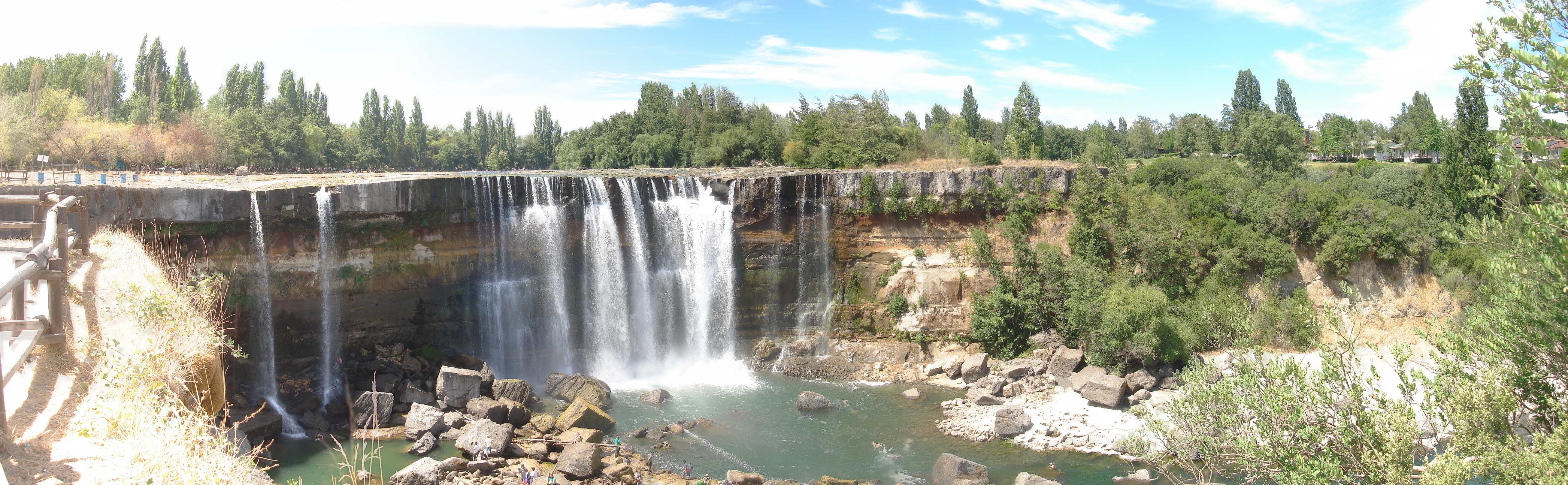 Panoramic of the Waterfalls of the river called Laja, in the VIII Región of Biobío in Chile.